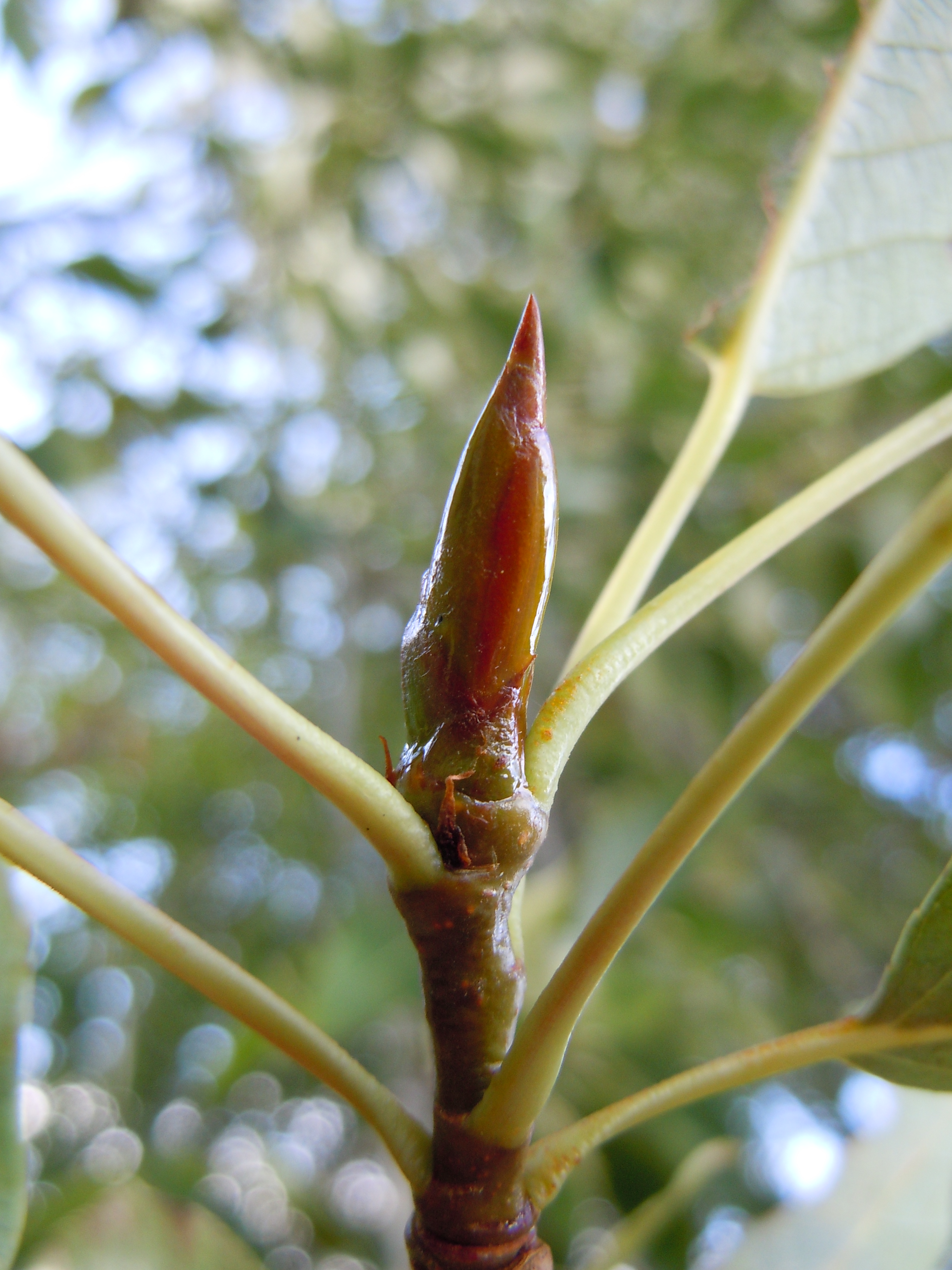 The large terminal sticky bud is typical of Populus.